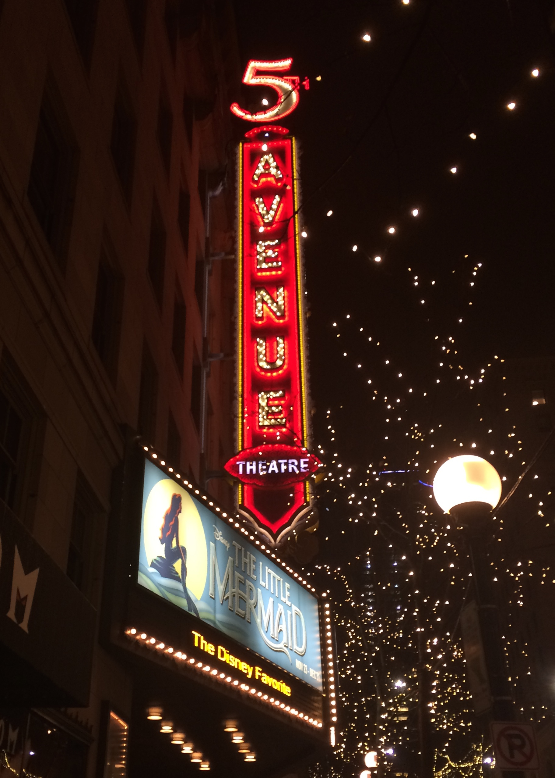 From the 2016 holiday season